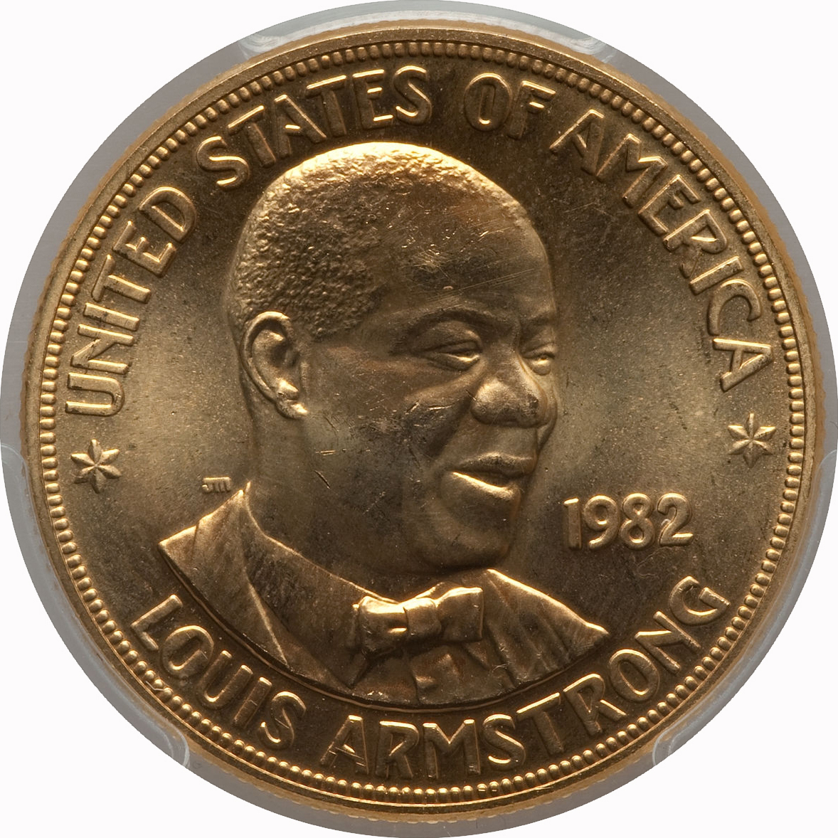 1982 Louis Armstrong One-Ounce Gold Medal (obv) (1207-9549)